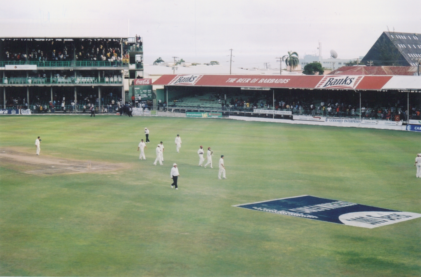 The Kensington Oval during the third Test of the Frank Worrell Trophy series in 2003 betweenthe West Indies cricket team and Australia.